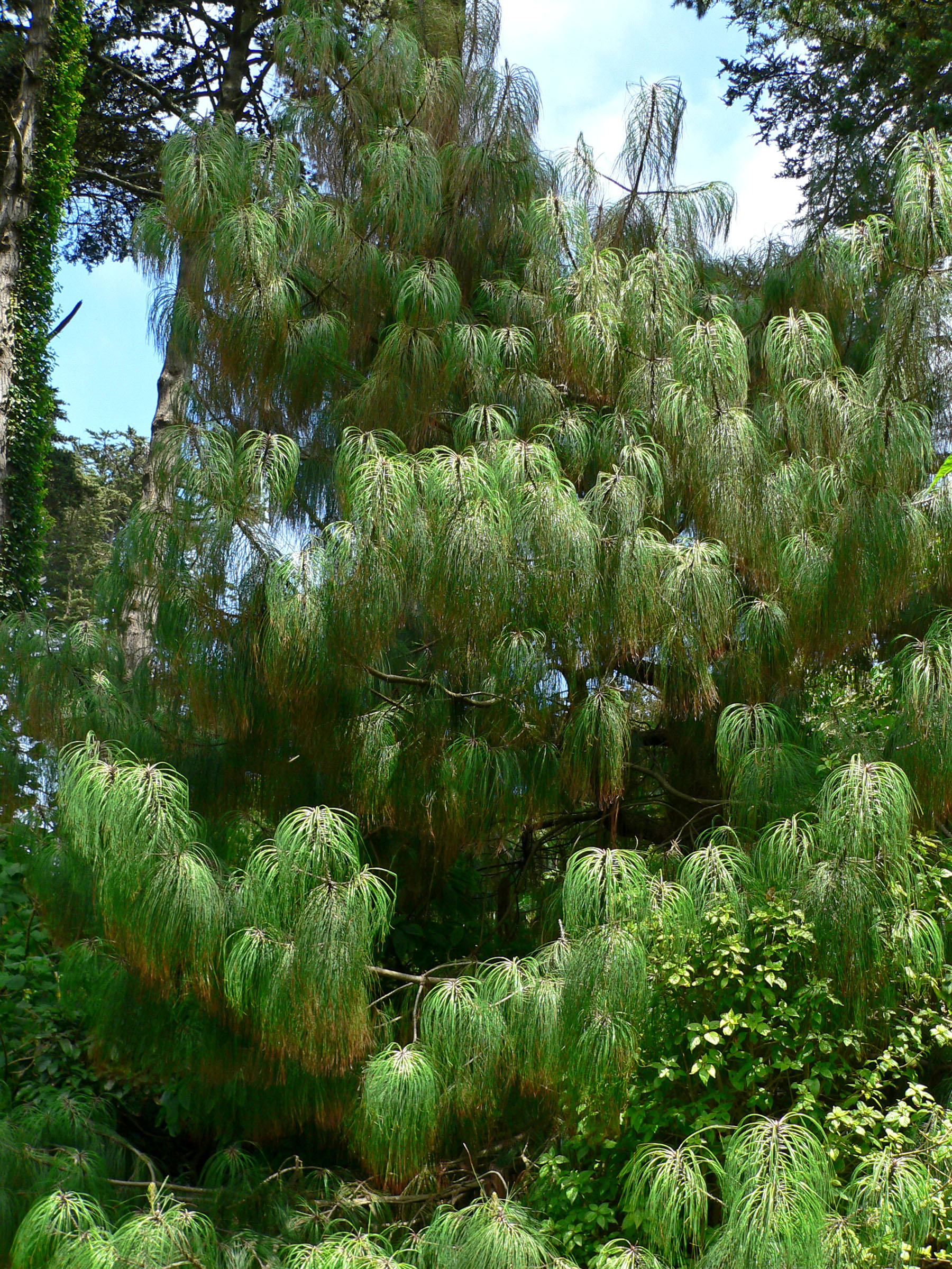 Pinus apulcensis (labelled Pinus oaxacana) at the San Francisco Botanical Garden